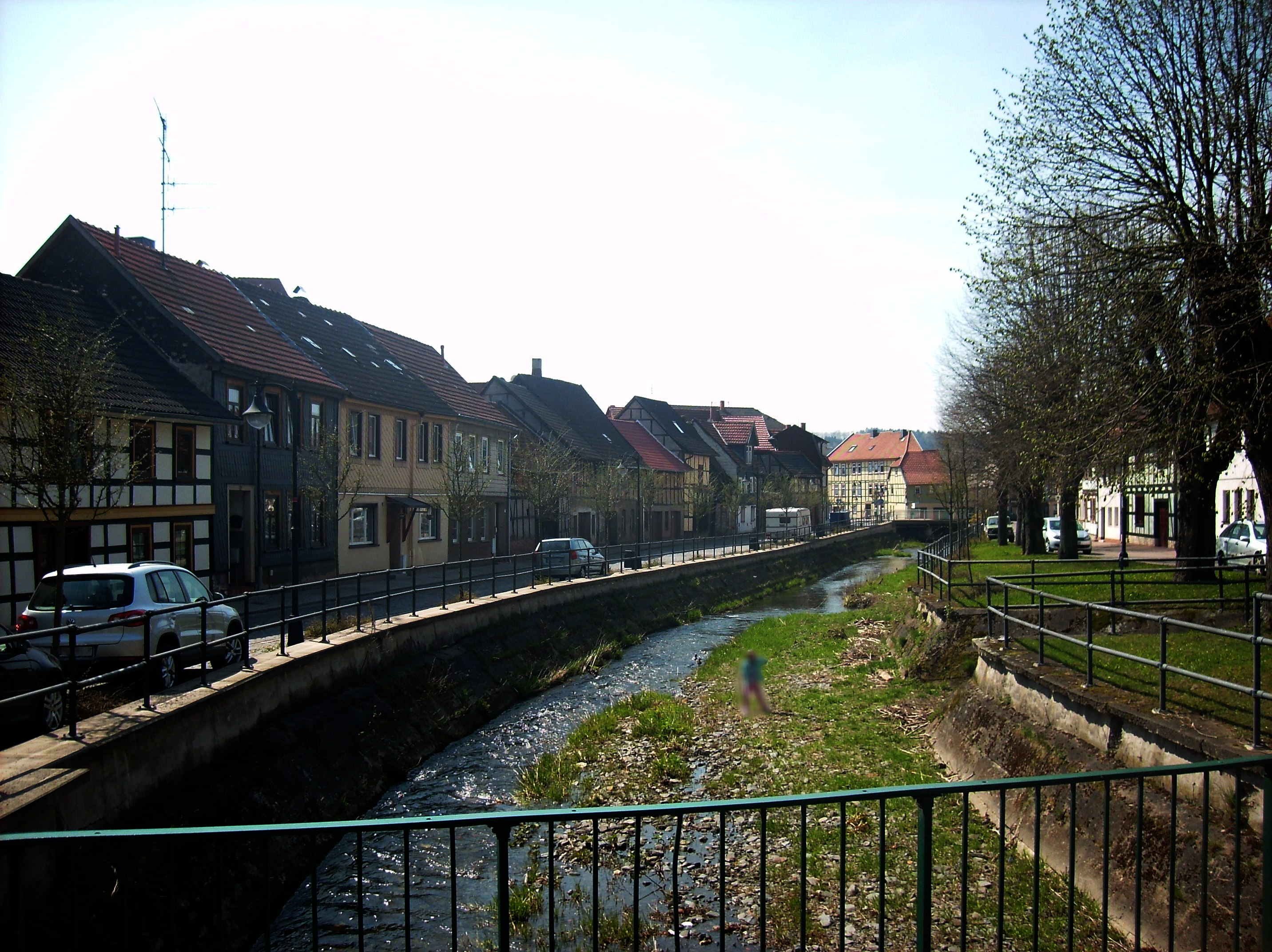 Zorge river and Grosse Uferstrasse in Ellrich (Nordhausen district, Thuringia)